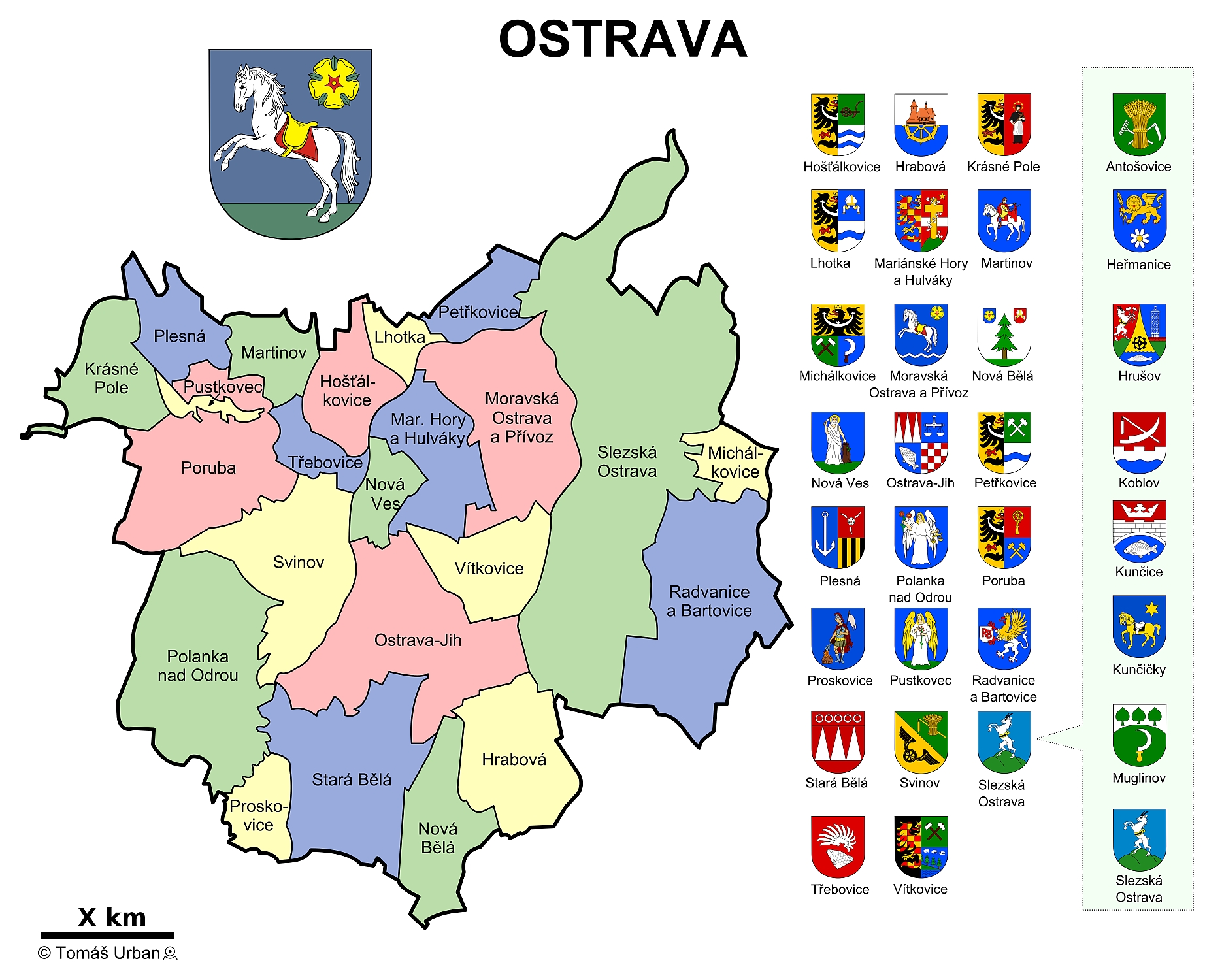 maps and coat of arms of Ostava